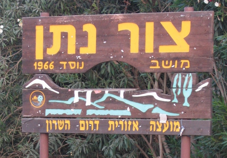 The sign on the entrance to the Israeli settlement (Moshav) of Tzur Natan.